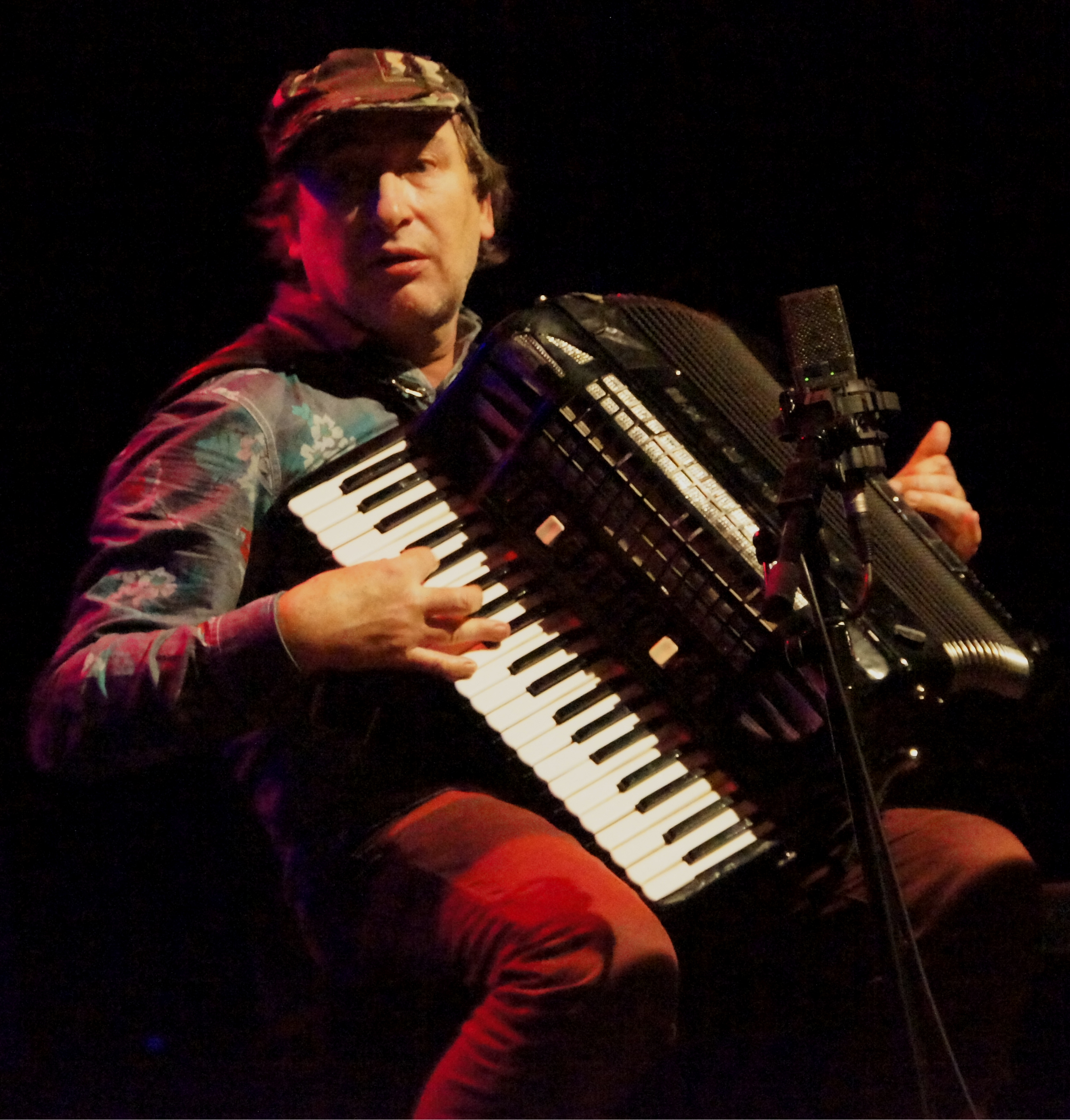 Yuri Lemeshev, performing in Vienna / Austria's "'Porgy&Bess" Jazz club.